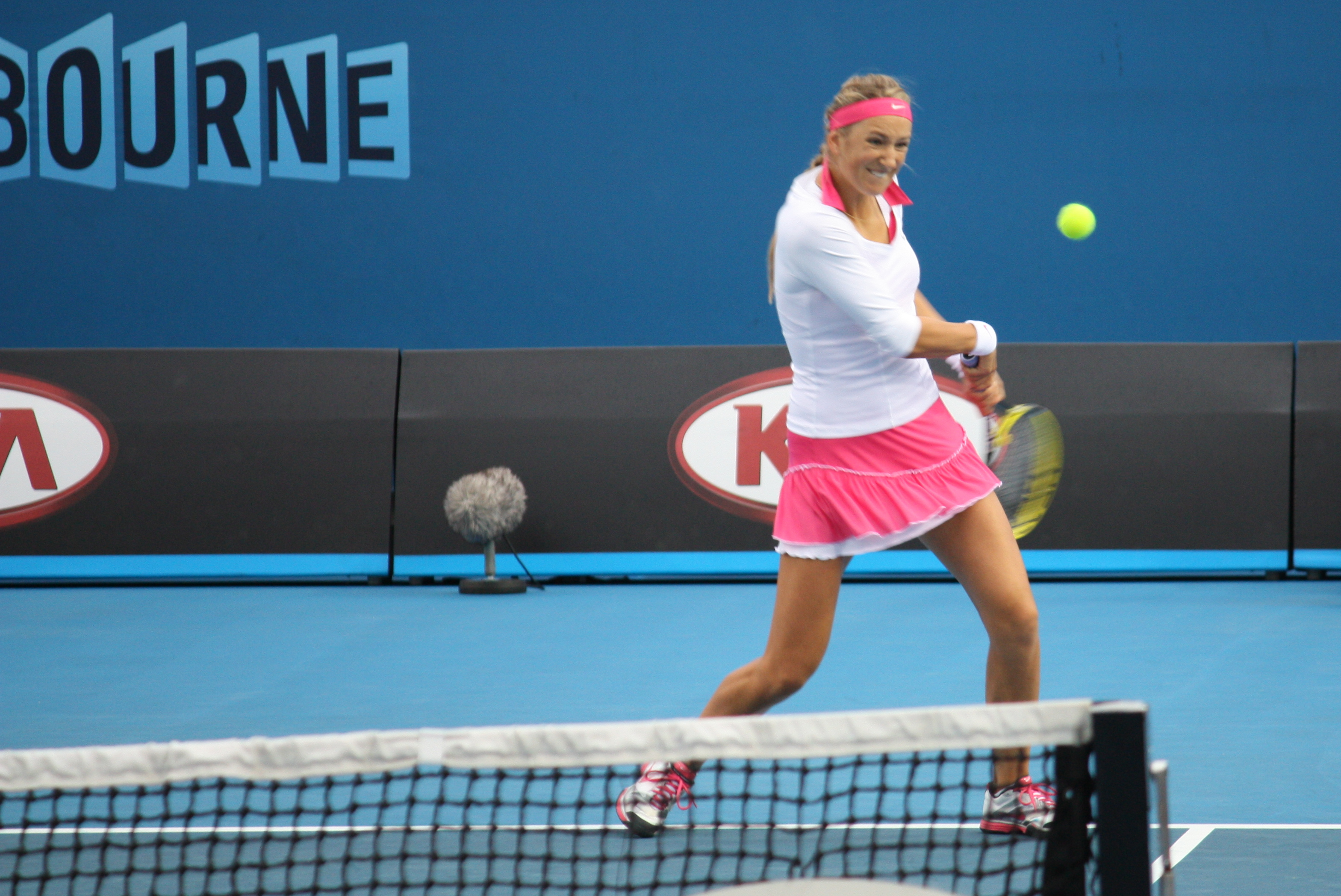 Victoria Azarenka at the 2011 Australian Open